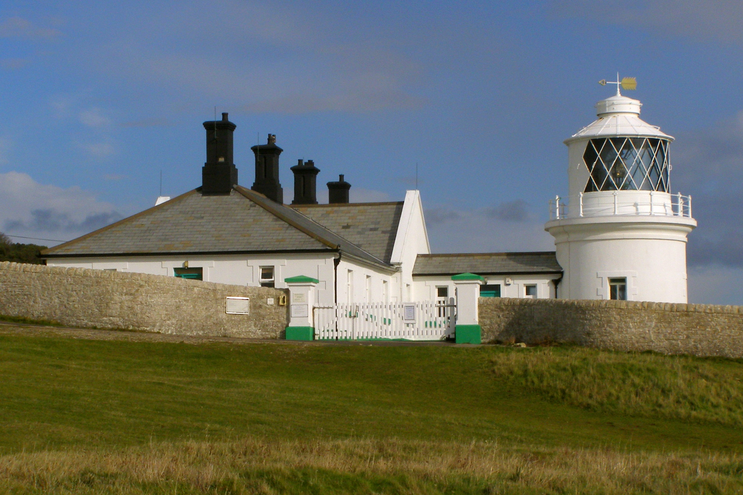 Anvil Point lighthouse at Durlston Country Park, Isle of Purbeck, Dorset, U.K.